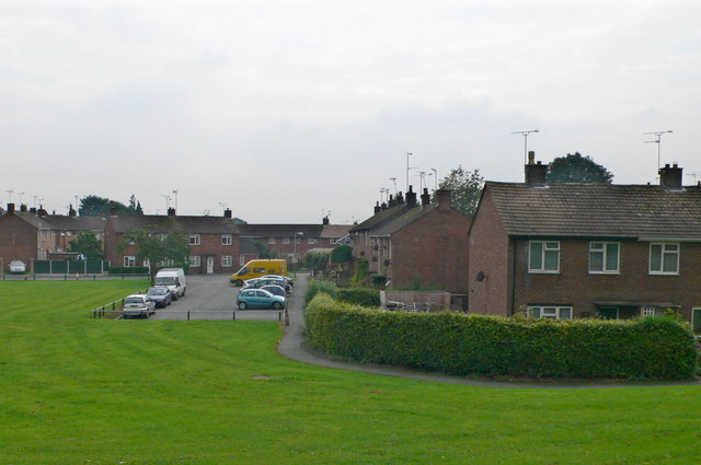 Caia Park, Wrexham, near to Rhosnesni, Wrexham/Wrecsam, Wales. The scene of riots in 2003.